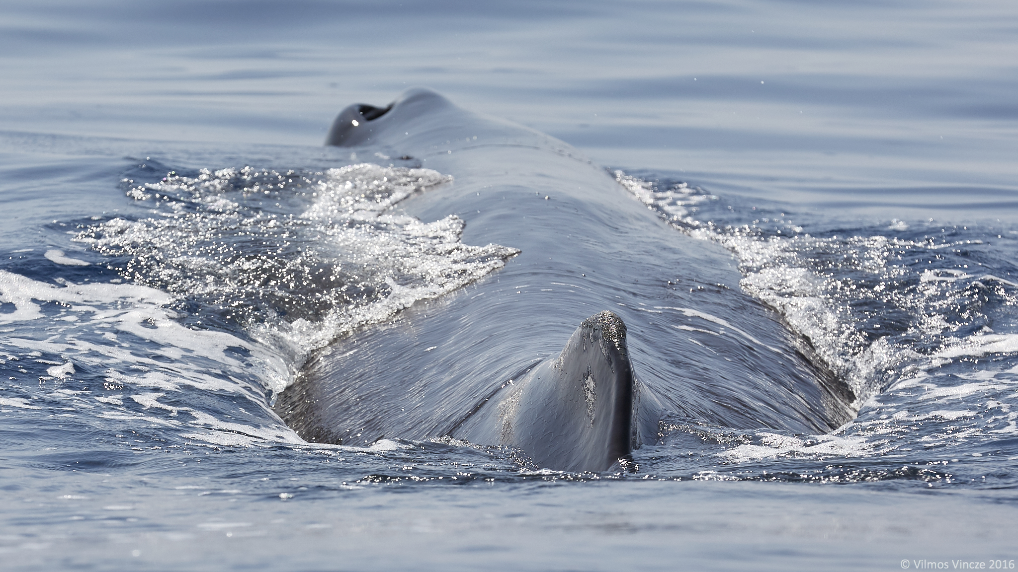 A sperm whale, photographed from the rear.